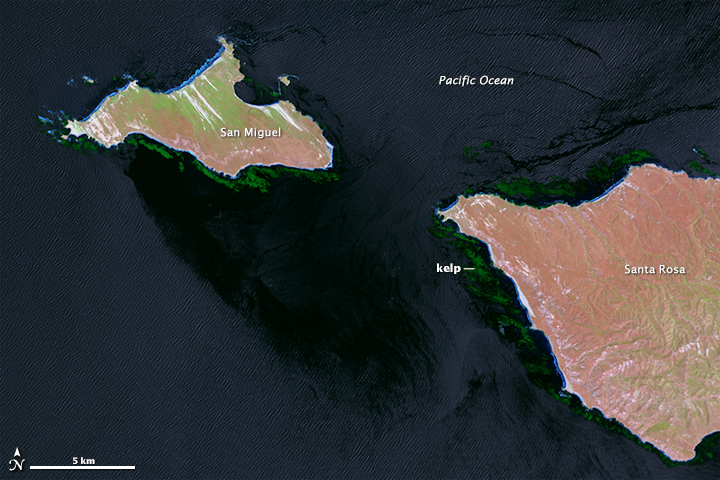 The natural color (top) and near-infrared (bottom) images at the top of this page show the kelp-rich waters around California’s Channel Islands, as observed on May 20, 2013, by the Operational Land Imager on Landsat 8. Wave patterns are visible on the water surface in both images, as is the water and wind shadow on the southeast side of San Miguel, where the ocean surface is smoother. The kelp are very difficult to spot in natural color, but a combination of near-infrared and natural color (bands 6-5-4) helps them stand out (second image). Turn on the image comparison tool to highlight the kelp. Landsat measures the energy reflected and emitted from Earth at many different wavelengths. Knowing how features on Earth reflect or absorb energy at certain wavelengths helps scientists map and measure changes to the surface. The most important feature for the kelp researchers is Landsat’s near-infrared band, which measures wavelengths of light that are just outside of our visual range. Healthy vegetation strongly reflects near-infrared energy, so this band is often used in plant studies. Also, water absorbs a lot of near-infrared energy and reflects little, making the band particularly good for mapping boundaries between land and water. “The near-infrared is key for identifying kelp from surrounding water,” said Kyle Cavanaugh, a marine biologist who uses remote sensing. “Like other types of photosynthesizing vegetation, giant kelp have high reflectance in the near infrared. This makes the kelp canopy really stand out from the surrounding water.”